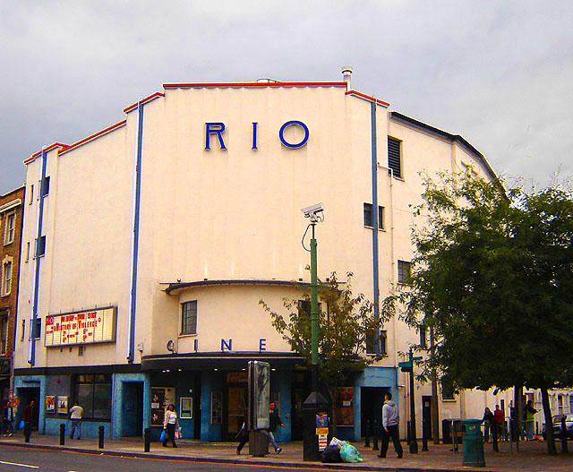 The Dalston Rio Cinema, 107 Kingsland High Street, London E8. 3 October 2005. Photographer: Fin Fahey.